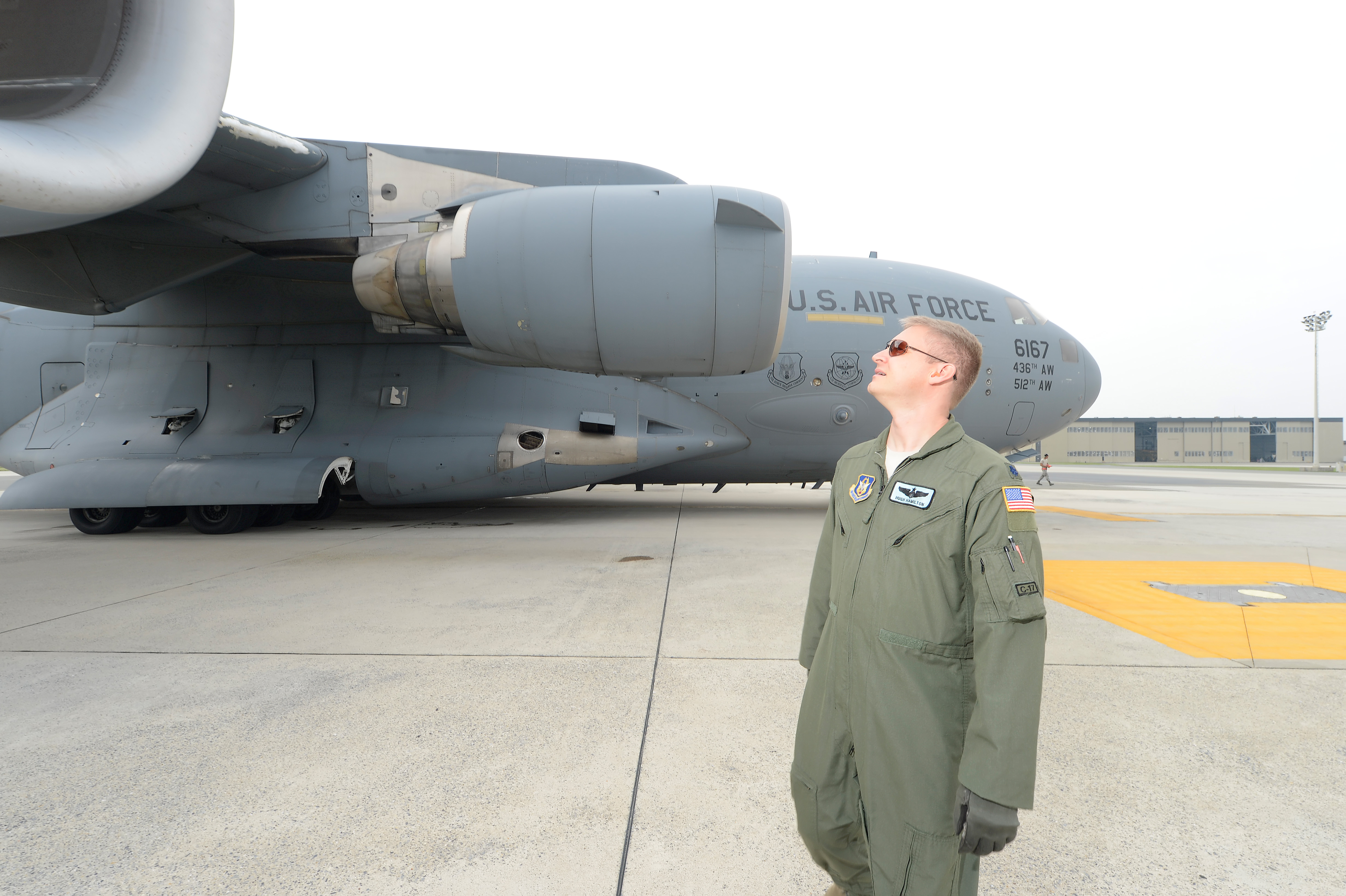 U.S. Air Force Lt. Col. Hugh Hamilton, with the 326th Airlift Squadron, 512th Airlift Wing, conducts a preflight inspection on a C-17 Globemaster III aircraft prior to a training flight at Dover Air Force Base, Del., June 18, 2013.